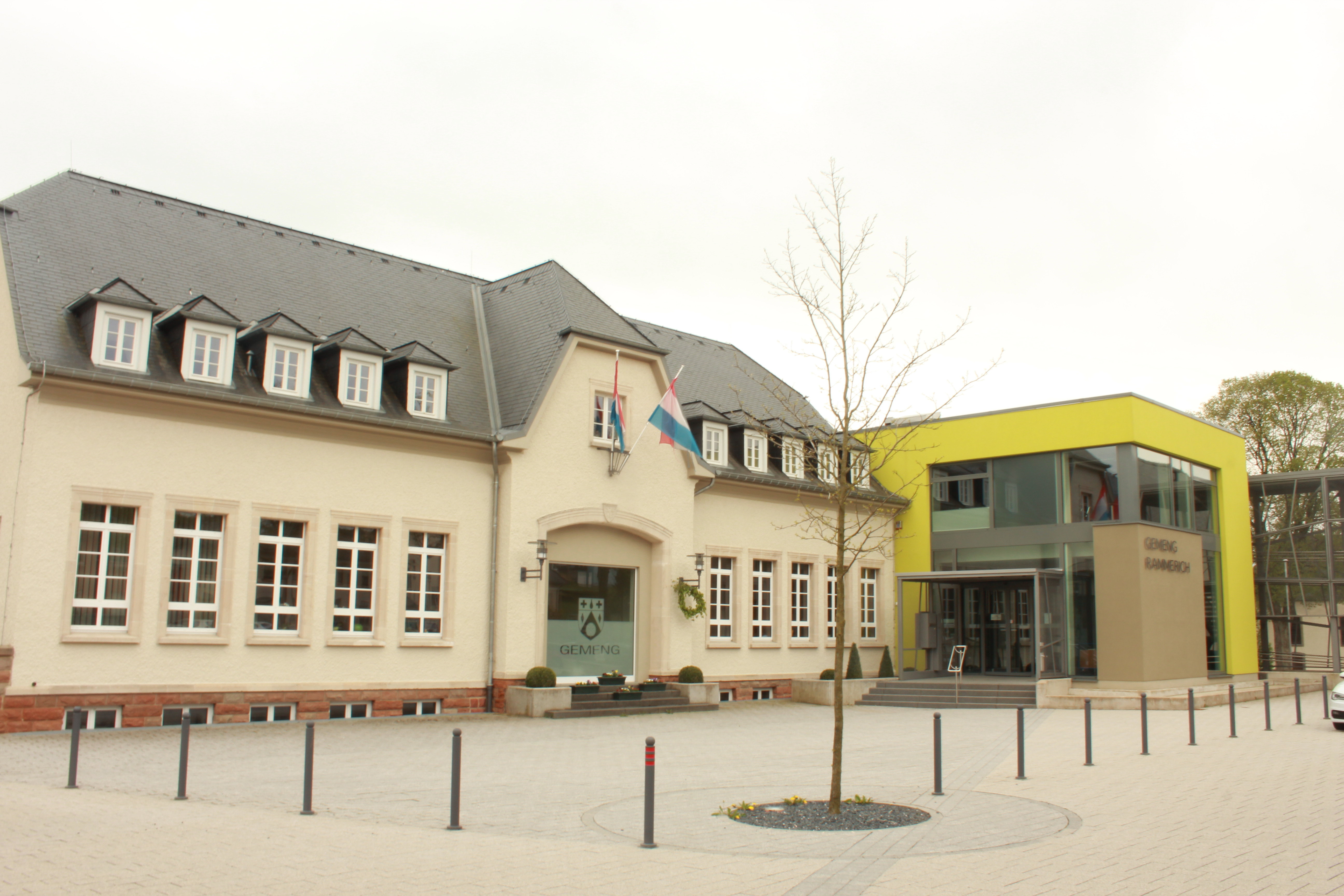 Town hall of Rambrouch, Luxembourg